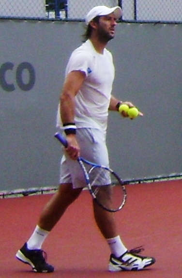 Franco Ferreiro, tennis player from Brazil, at 2011 São Paulo Challenger